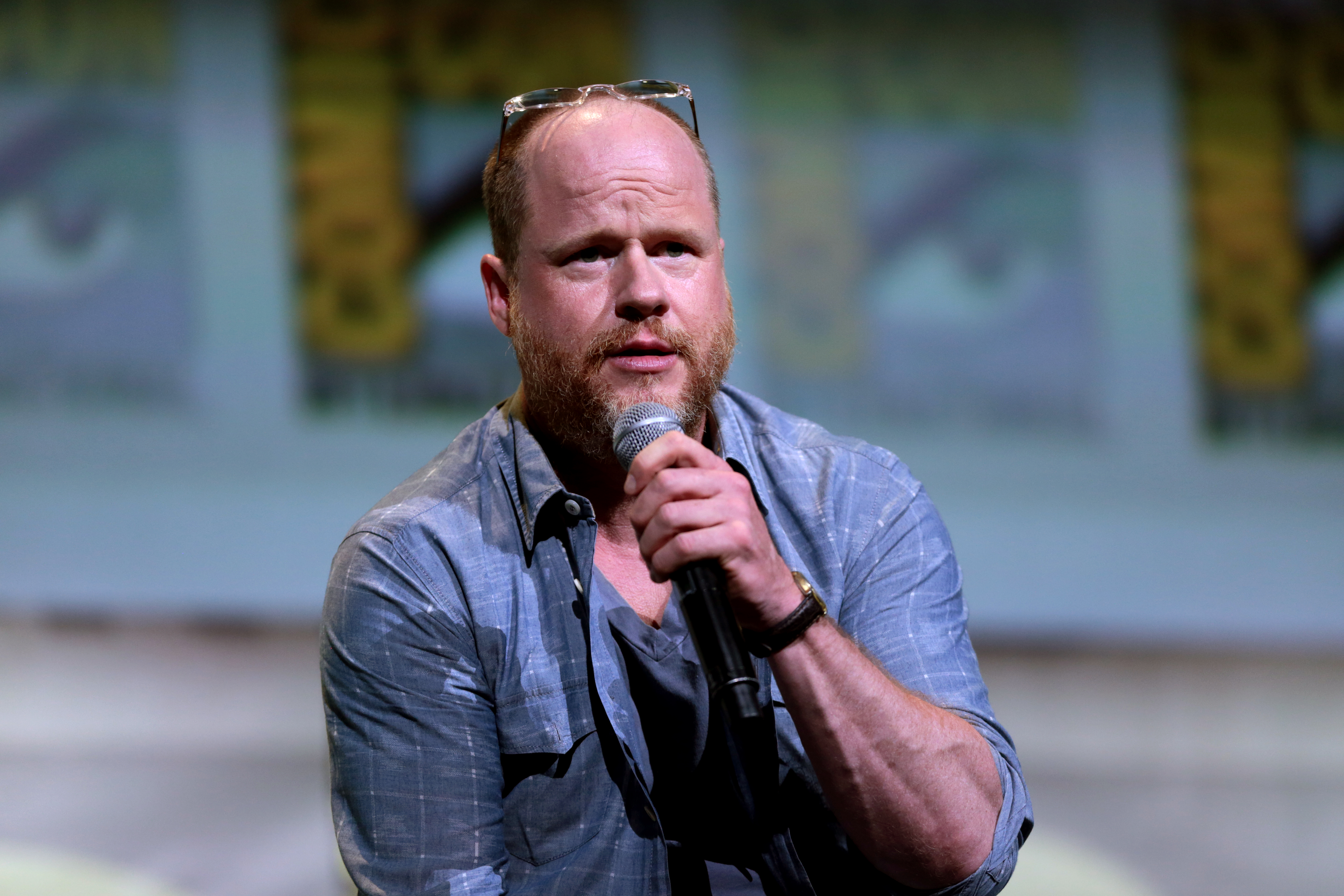 Joss Whedon speaking at the 2016 San Diego Comic Con International at the San Diego Convention Center in San Diego, California.